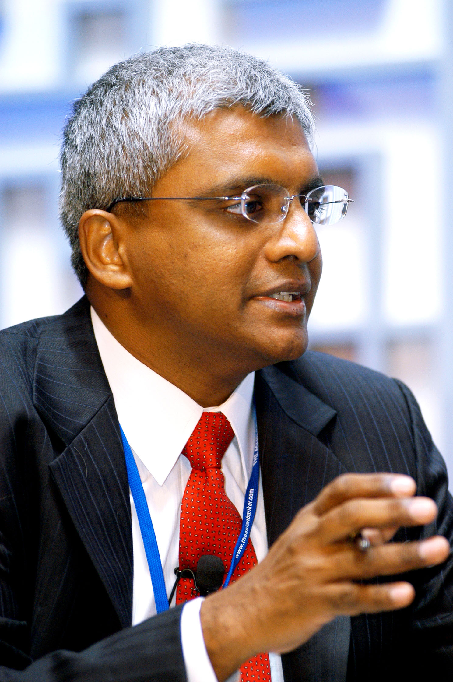 Emmanuel Daniel from CIBC 2006